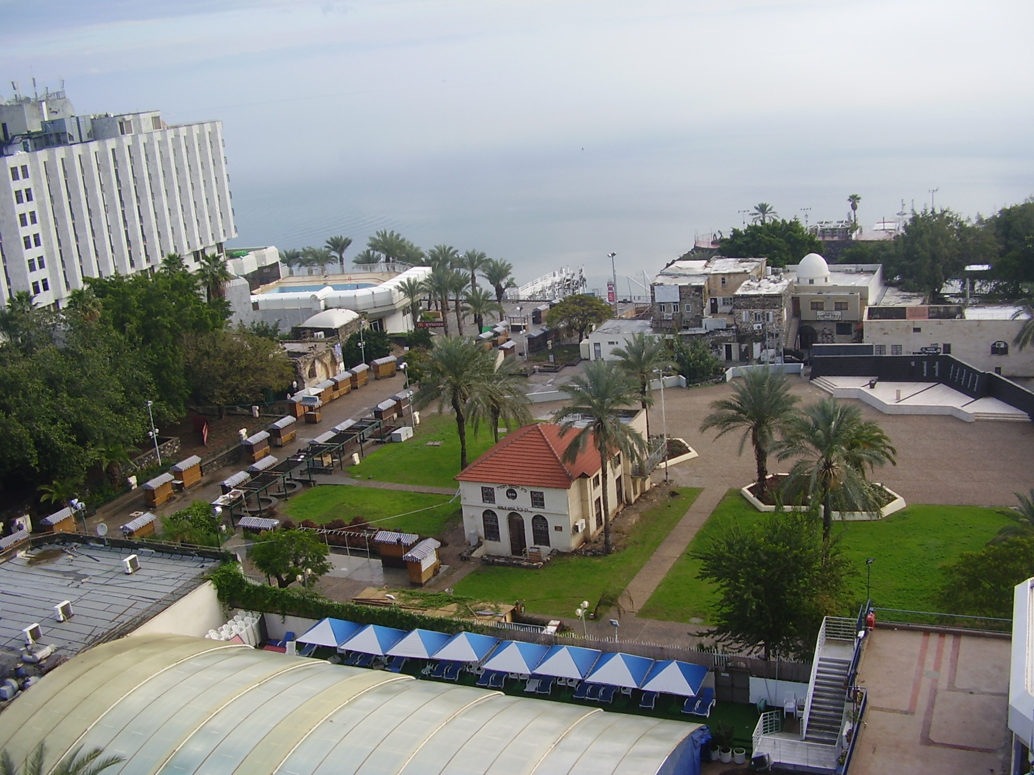 wiew from leonardo club hotel, tiberias